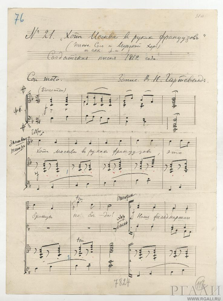 Russian Folk Song arranged by Wilhelm Garteweld